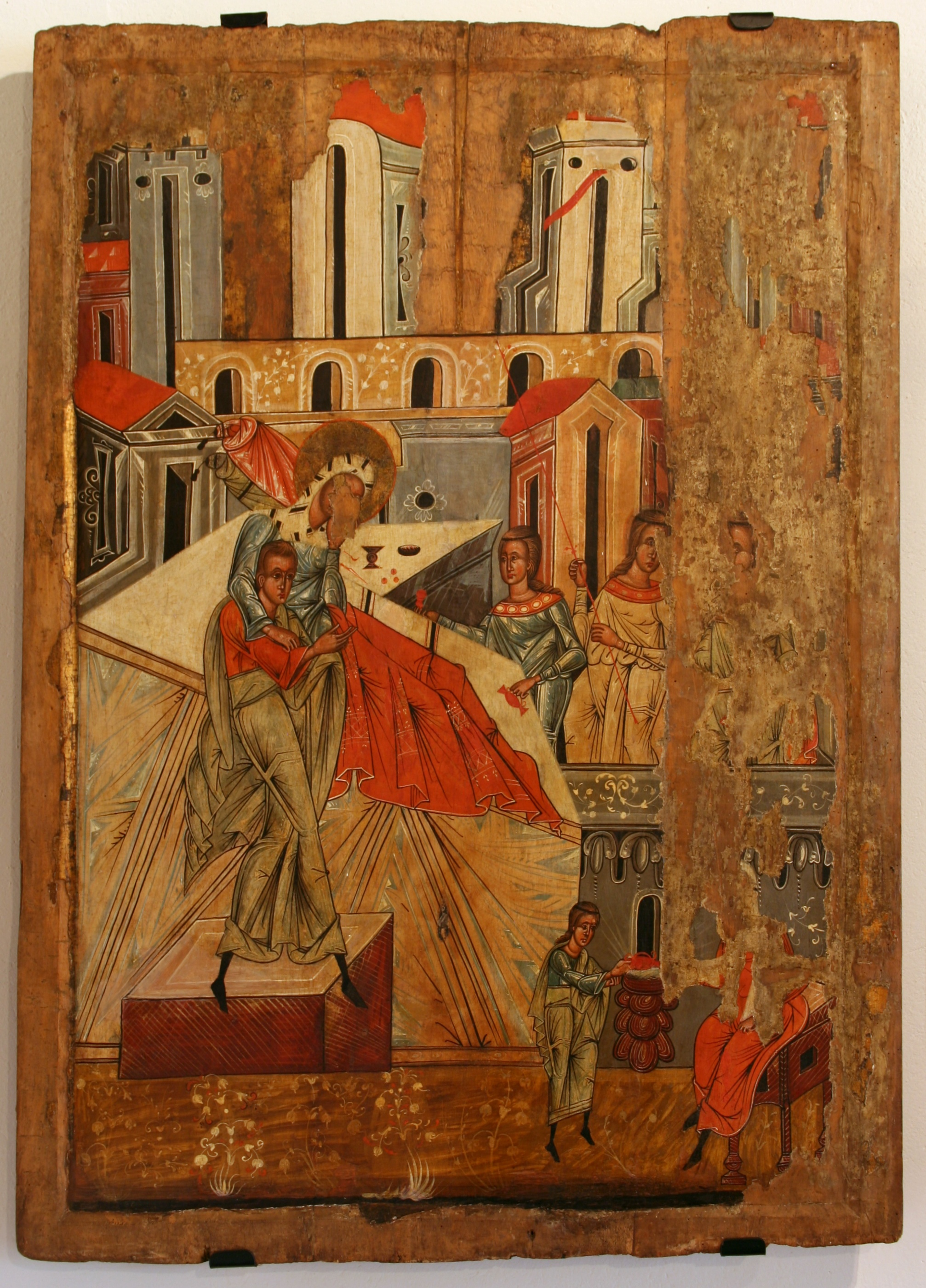 The Nativity of the St. John, icon of end of the 16th cent., Historic Museum in Sanok, Poland